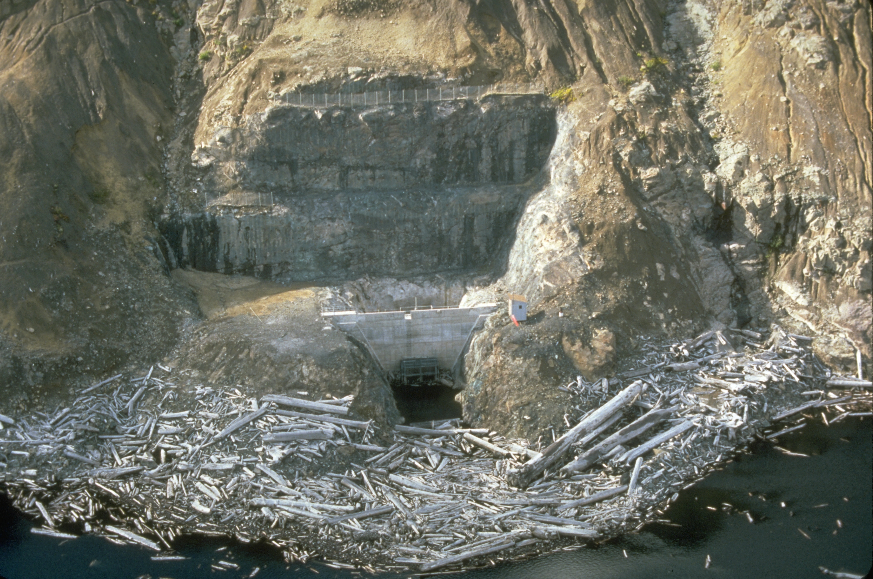 View of the Spirit Lake outlet tunnel, built in 1985, that allows water to drain out of Spirit Lake safely and maintain the lake's water level 100 ft (30 m) below the estimated overtopping level.